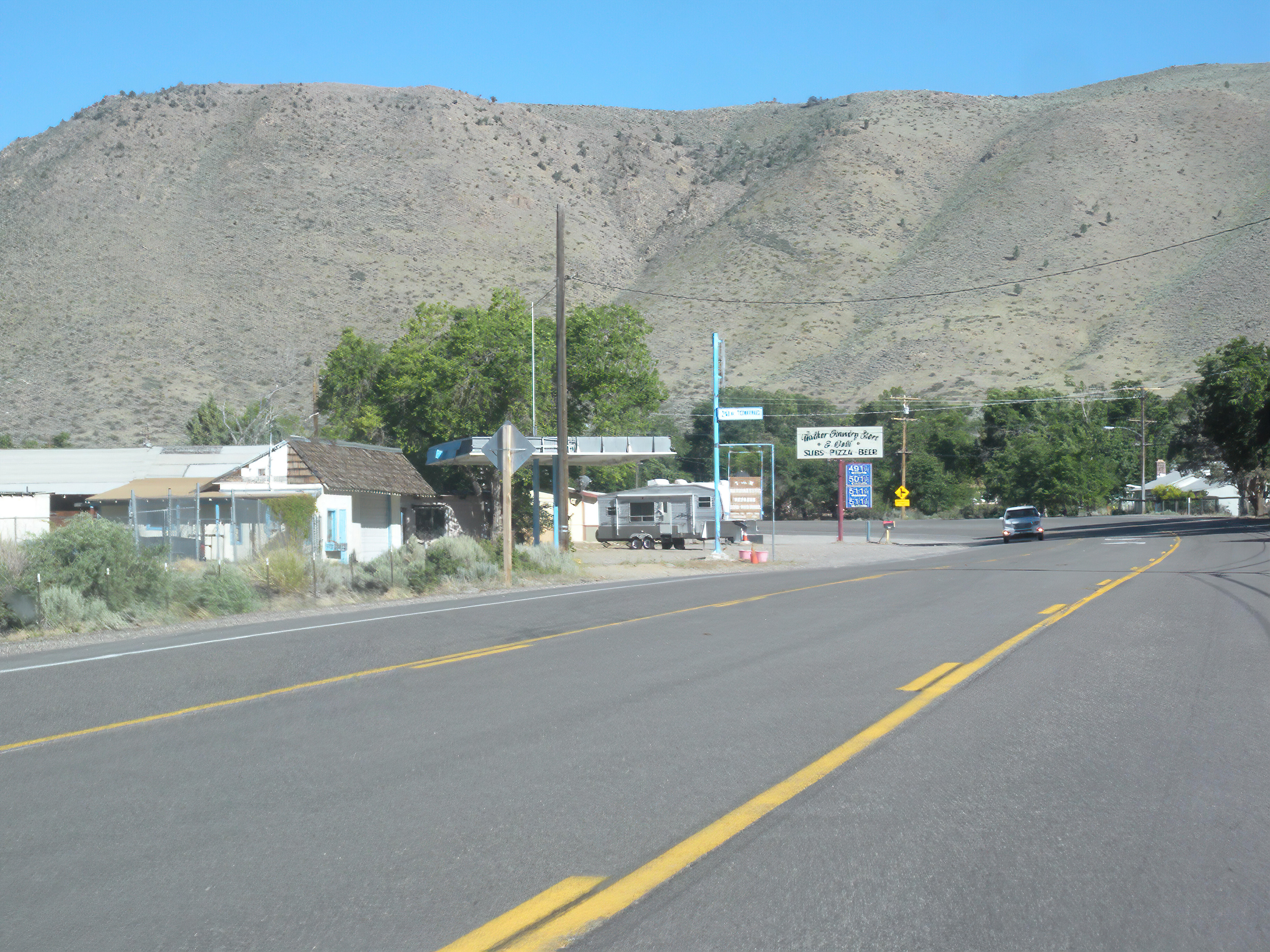 This is U.S. 395 passing through Walker. Originally posted to my Flickr: Thanks to Reddit user /u/CreepyPhotoshopper for reducing the motion blur and removing the image artifacts